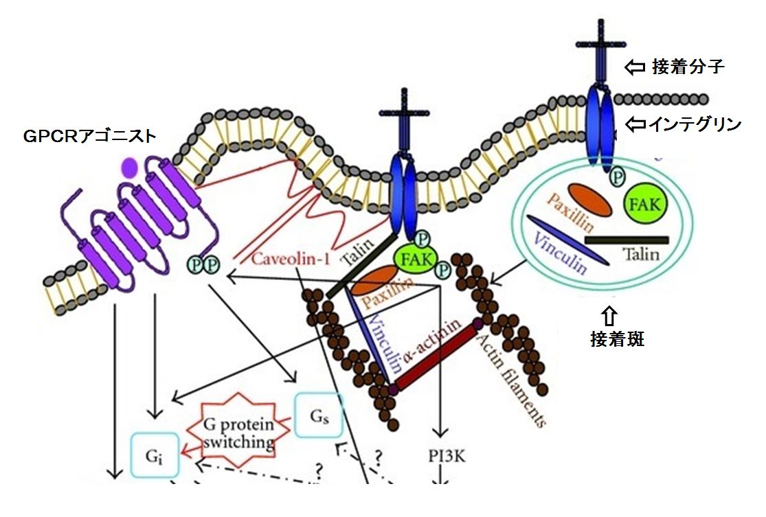 Japanese version of upper part of GPCR and itegrin signaling diagram